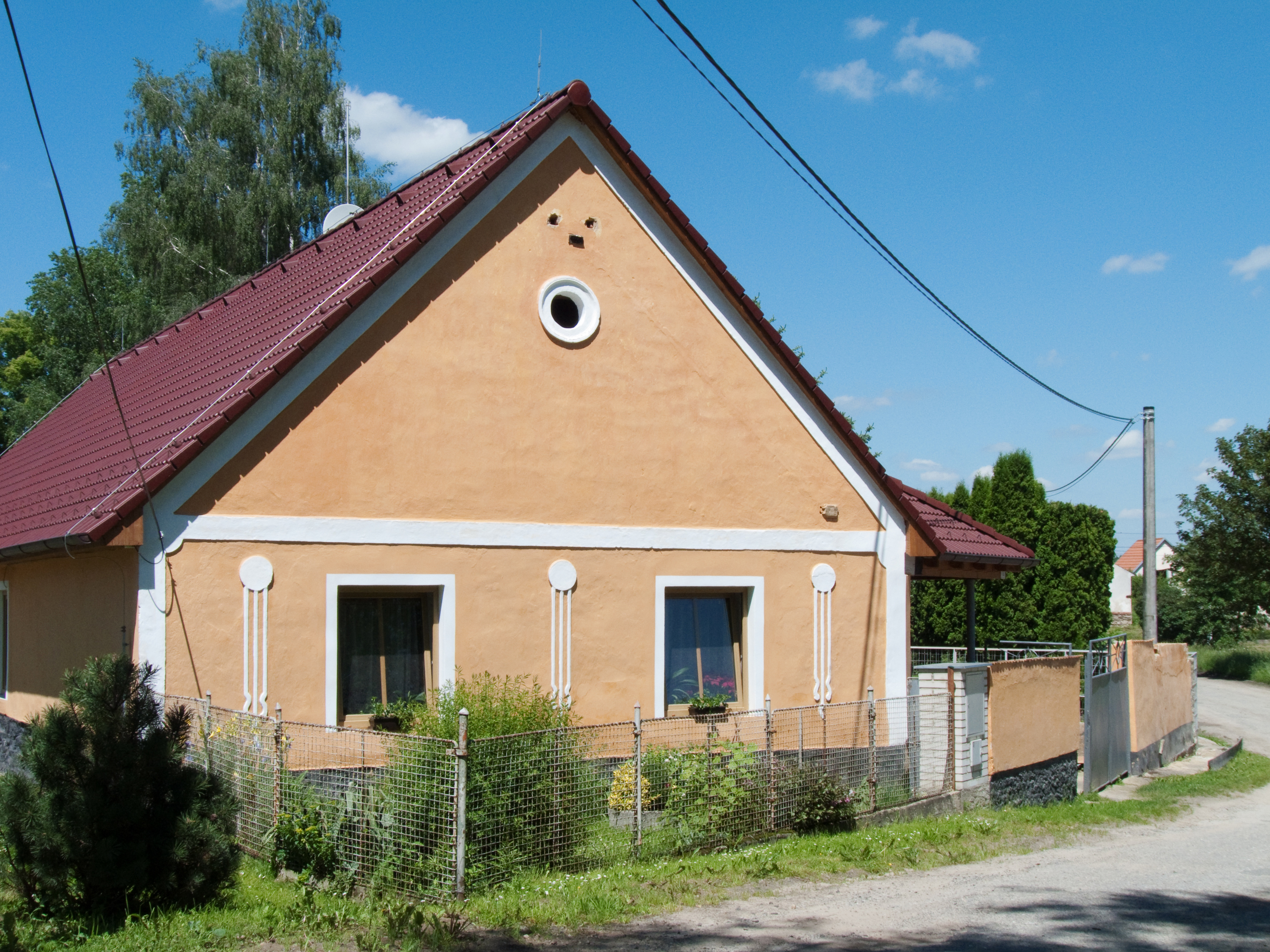 House No 13 in the village of Kvasejovice, Tábor district, Czech Republic